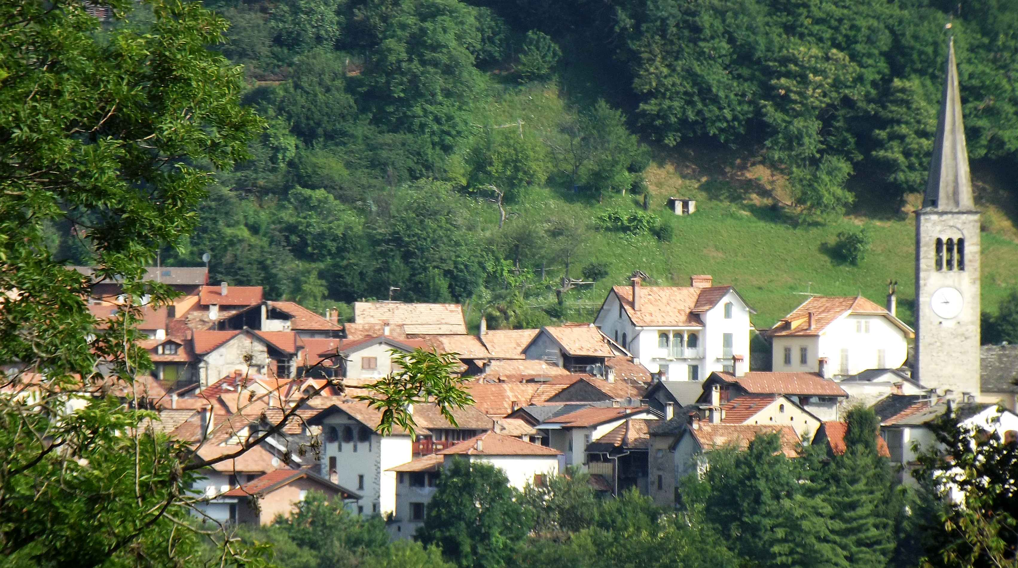 Arola (VB, Italy): panorama fron Artò